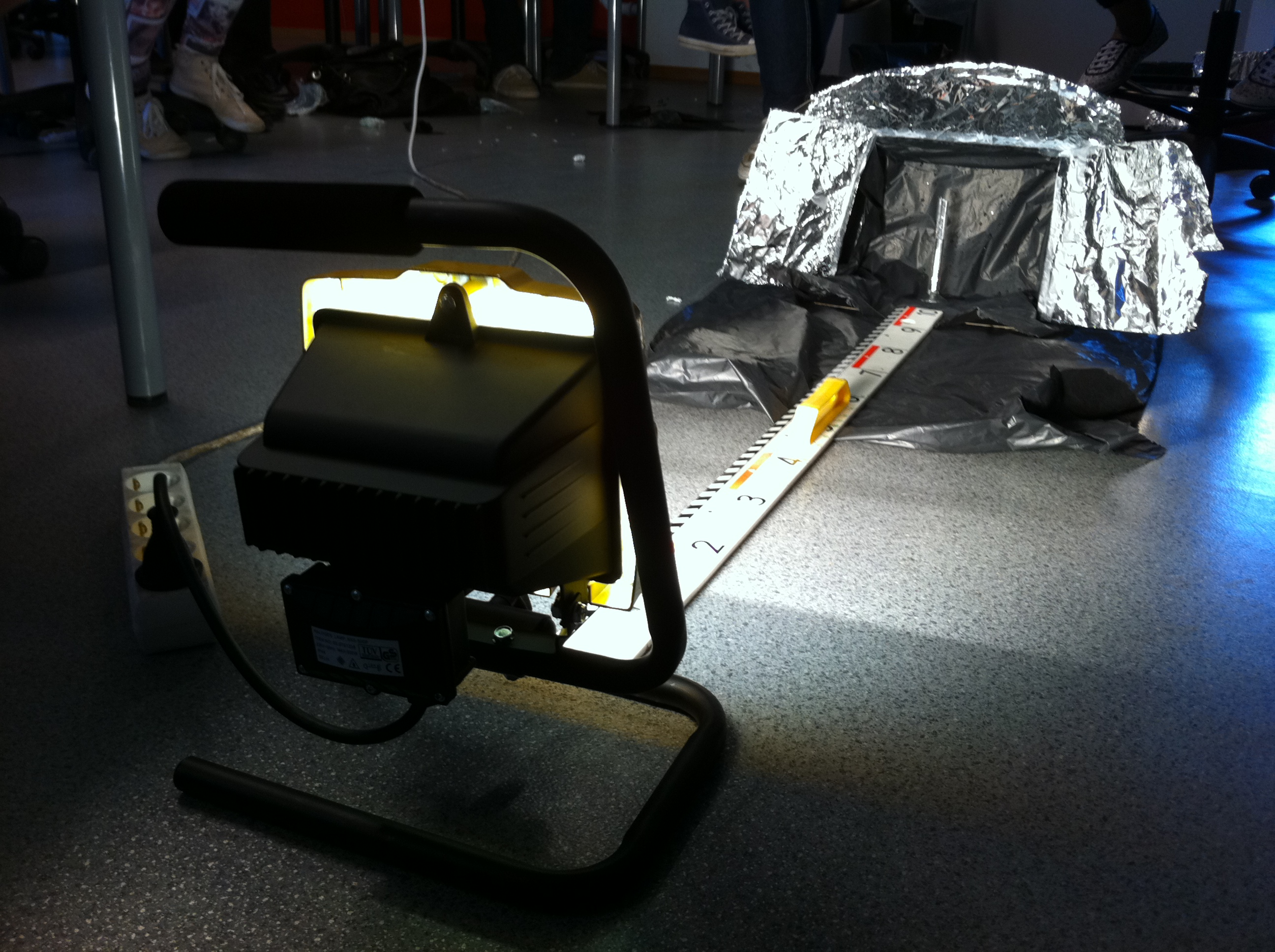 Solar thermal energy model